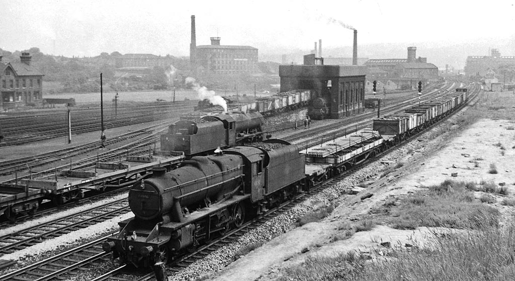 Freight trains on the Calder Valley main line near Mirfield. View eastward, from beside the Locomotive Depot (across the lines) towards Mirfield Station, Leeds, Wakefield etc. The westbound Class H in foreground is headed by Stanier 8F 2-8-0 No. 48146, the eastbound train behind by 8F 48095. The Depot coaling-plant is in the centre and the River Calder behind. This four-track section between Heaton Lodge Junction and Thornhill (LNW) Junction was exceptionally busy because it carried all the traffic on the west-east axis across the Pennines on both the ex-London & North Western and the ex-Lancashire & Yorkshire routes. (See also SE2019 : Eastbound empties passing Mirfield Station).